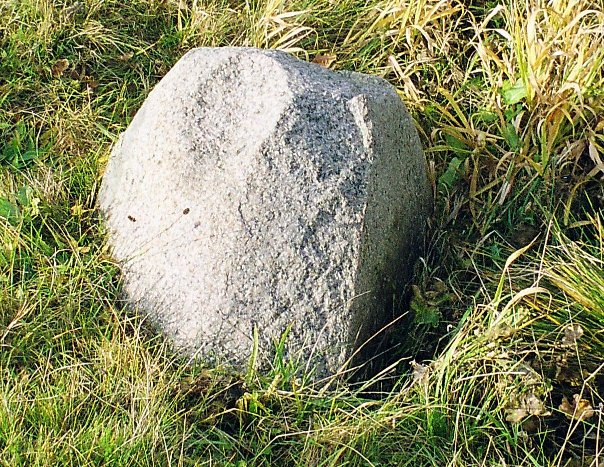 Imbarė stone, Kretinga district, Lithuania